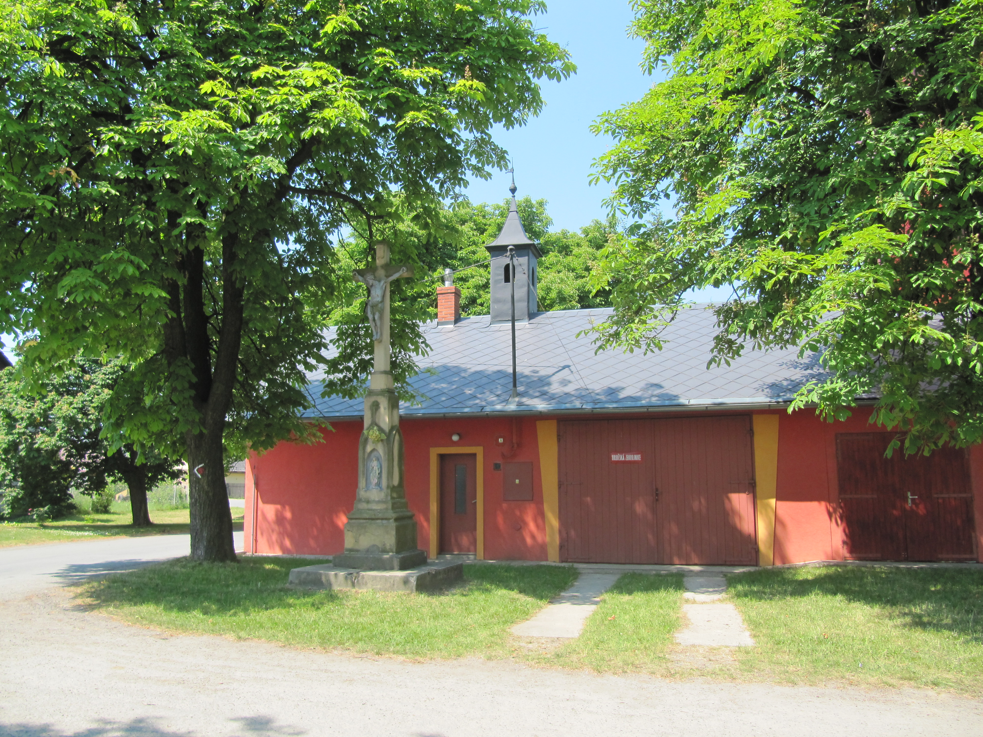 Vítkov, Opava District, Czech Republic, part Jelenice.